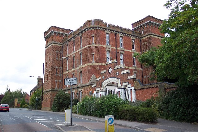 Stoughton Barracks, Guildford. This is the keep of Stoughton Barracks, built in 1876 as part of the army reforms carried out by Edward Cardwell, Gladstone's Secretary of State for War between 1870 and 1874, hence its nickname of Cardwell's Keep. Cardwell decided that each army regiment should be associated with a locality and Guildford was chosen as the headquarters of the 2nd Regiment of Foot – ‘The Queens’, one of the founding regiments of the British Army. In 1881 it became the Queen’s Royal West Surrey Regiment. In 1959, when it amalgamated with the East Surreys to become the Queen’s Royal Surrey Regiment, it left Stoughton. The Barracks then became a Regional Control Centre until the MOD moved out in 1983. It then remained derelict until being converted to residential use in 2000.